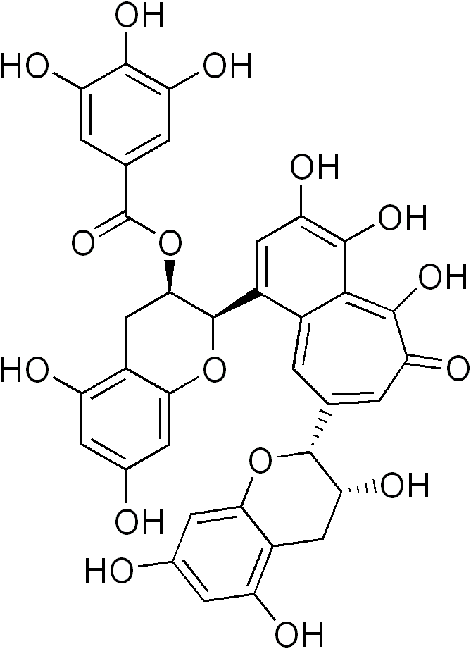 chemical structure of Theaflavin-3-gallate